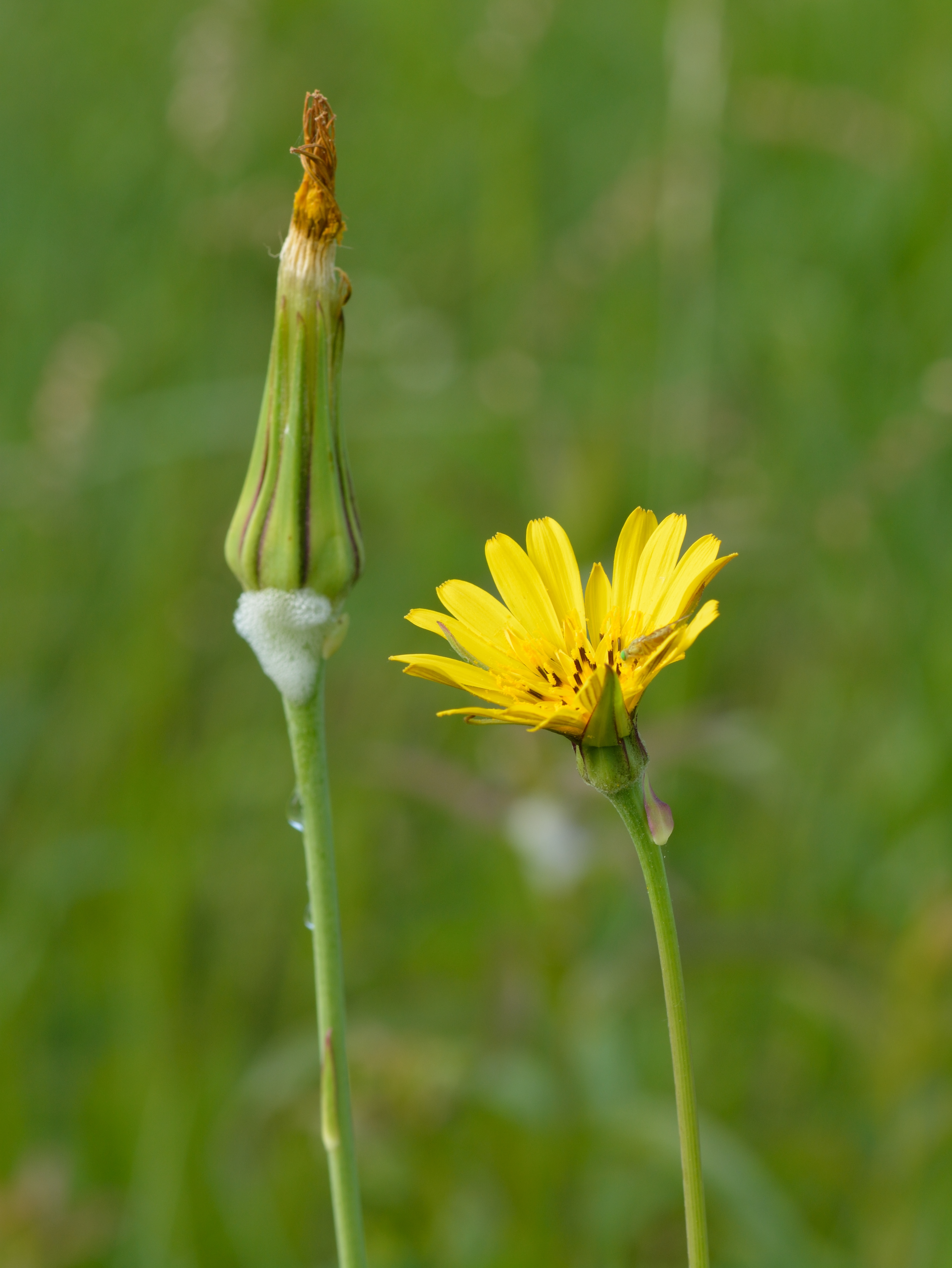 Tragopogon pratensis. Natural habitat (alvar) in Käesalu, Northwestern Estonia